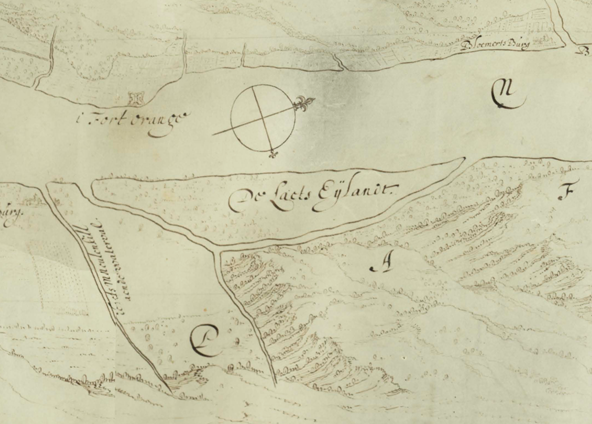 De Laet's Island, known later as Van Rensselaer Island, as charted in the original Map of Rensselaerswyck, probably created around 1632; north is to the right.